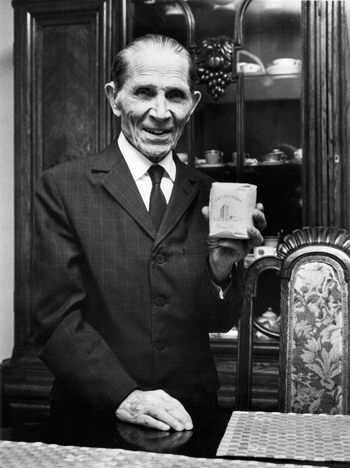 Doctor Arvo Ylppö in 1945